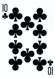 A Playing card: ten of clubs , from poker deck, in small png format.